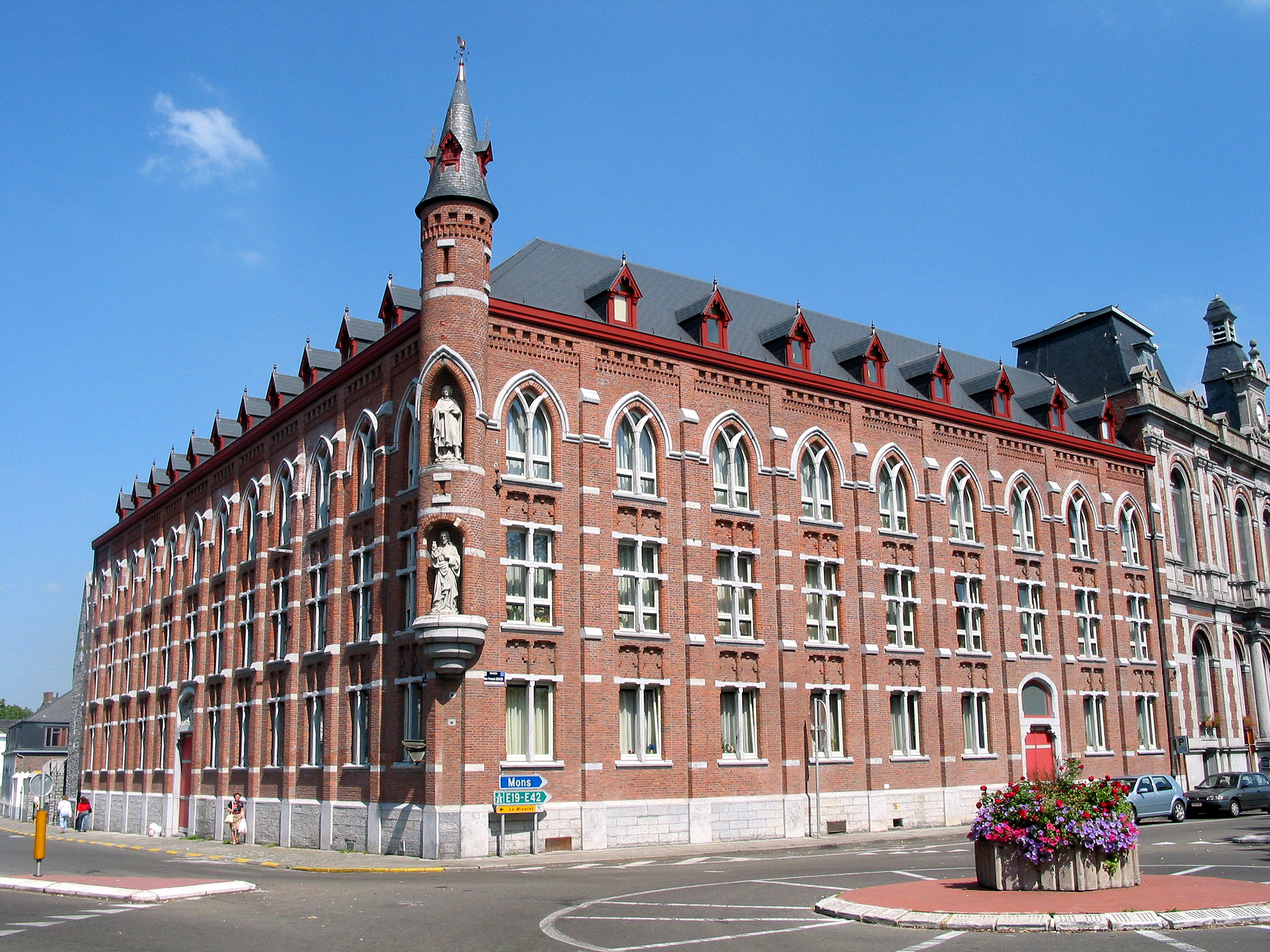 Boussu (Belgium), the old orphanage (architect: Jean-Baptiste Bethune - 1875).